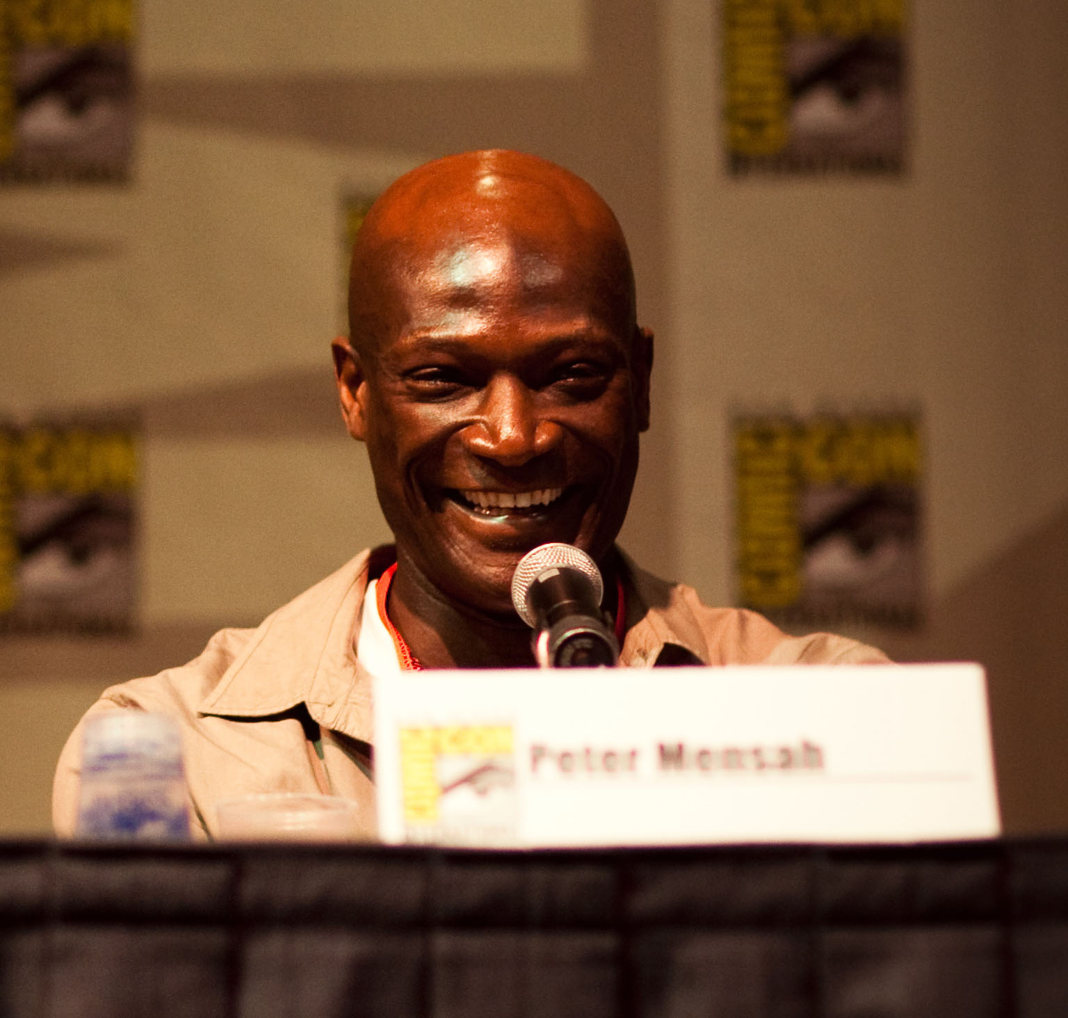 Peter Mensah at ComicCon 2009 for the Spartacus Launch